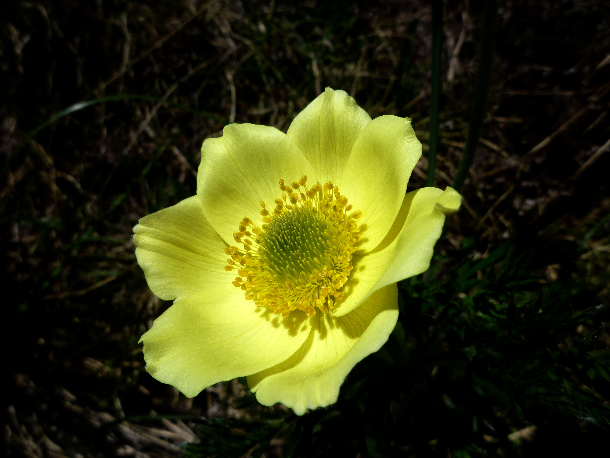 Anemone alpina. In Cabdella (Pallars Jussà - Catalunya. To 2.220 m altitude